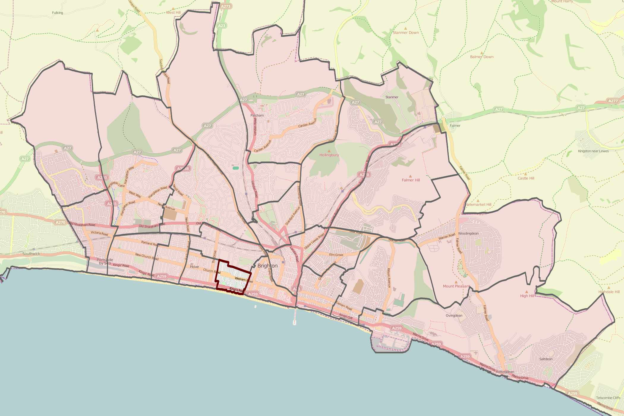 Map of Brighton and Hove wards with one ward highlighted